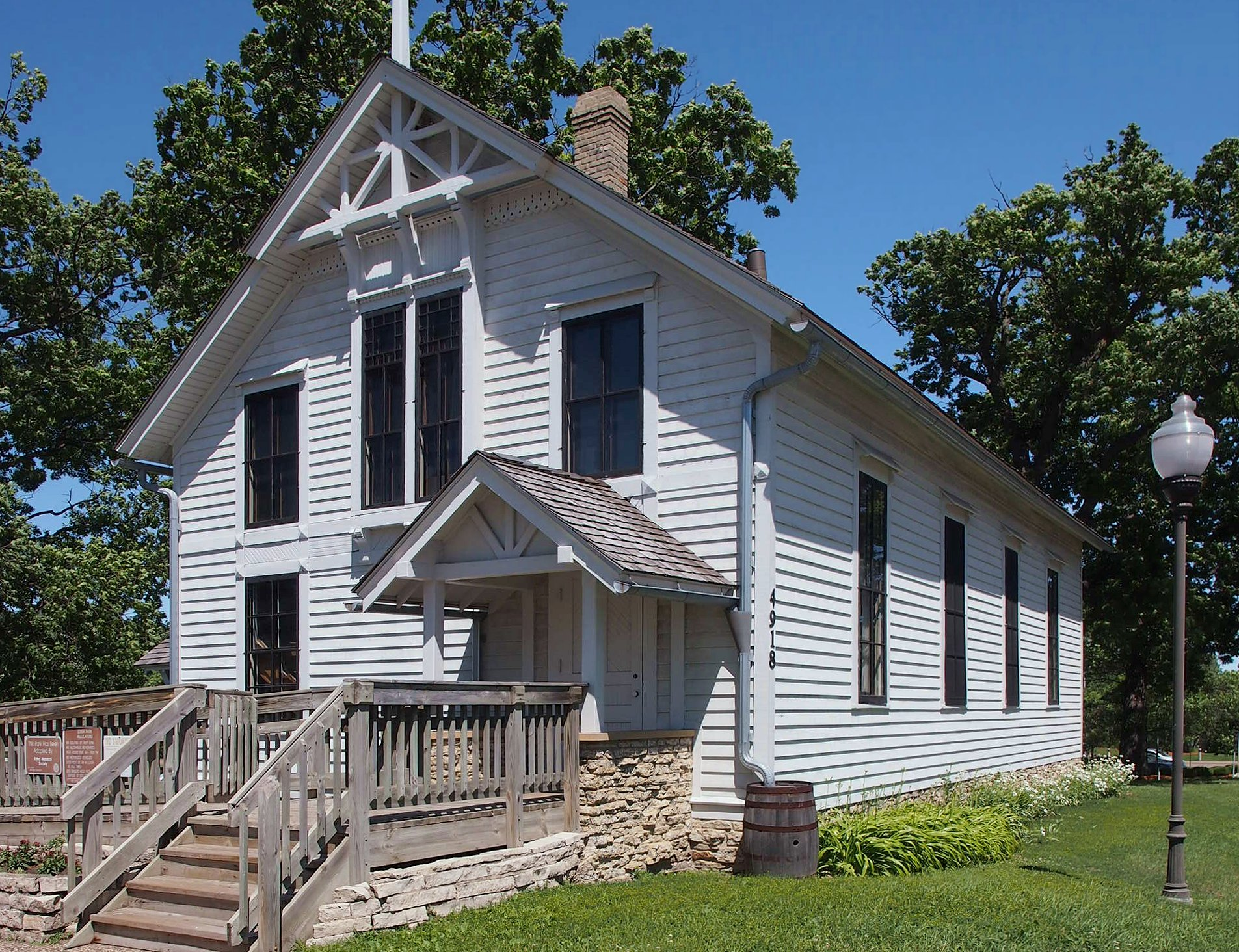 Minnehaha Grange Hall, 4918 Eden Ave, Edina, Minnesota, USA. Viewed from the southwest.